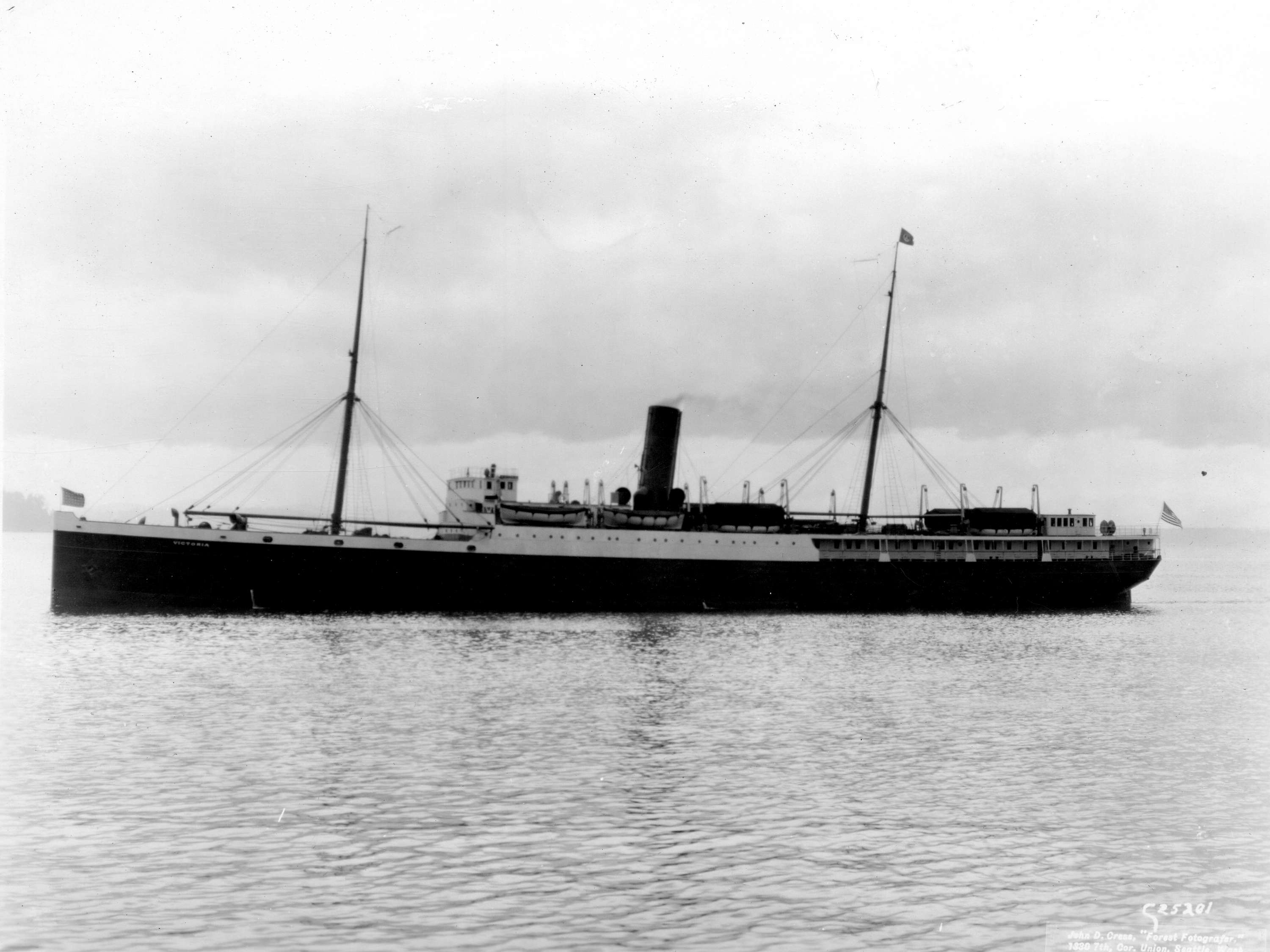 A photograph of the SS Victoria, owned by the Alaska Steamship Company. She was originally the SS Parthia of the Cunard Line and was built in Scotland in 1870.